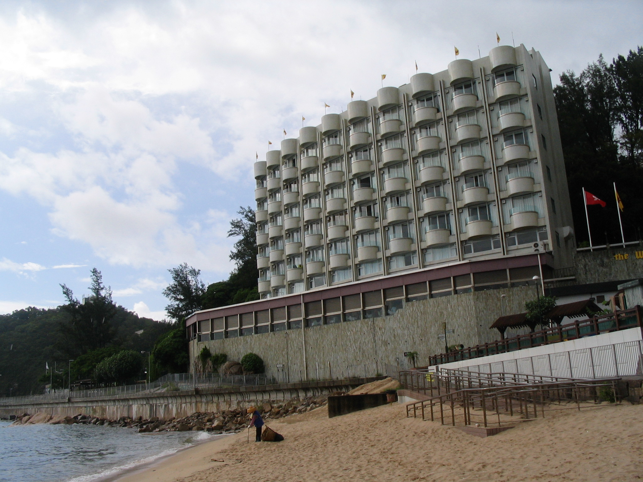 Photo of Warwick Hotel Cheung Chau